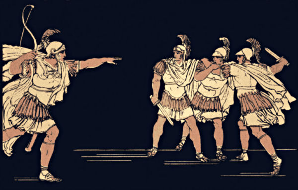 Stories From Virgil, with Twenty Illustrations from Pinelli's Designs